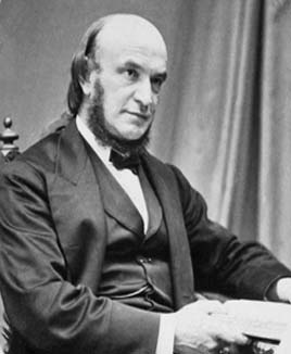 John Couch Adams 1819 – 1892)